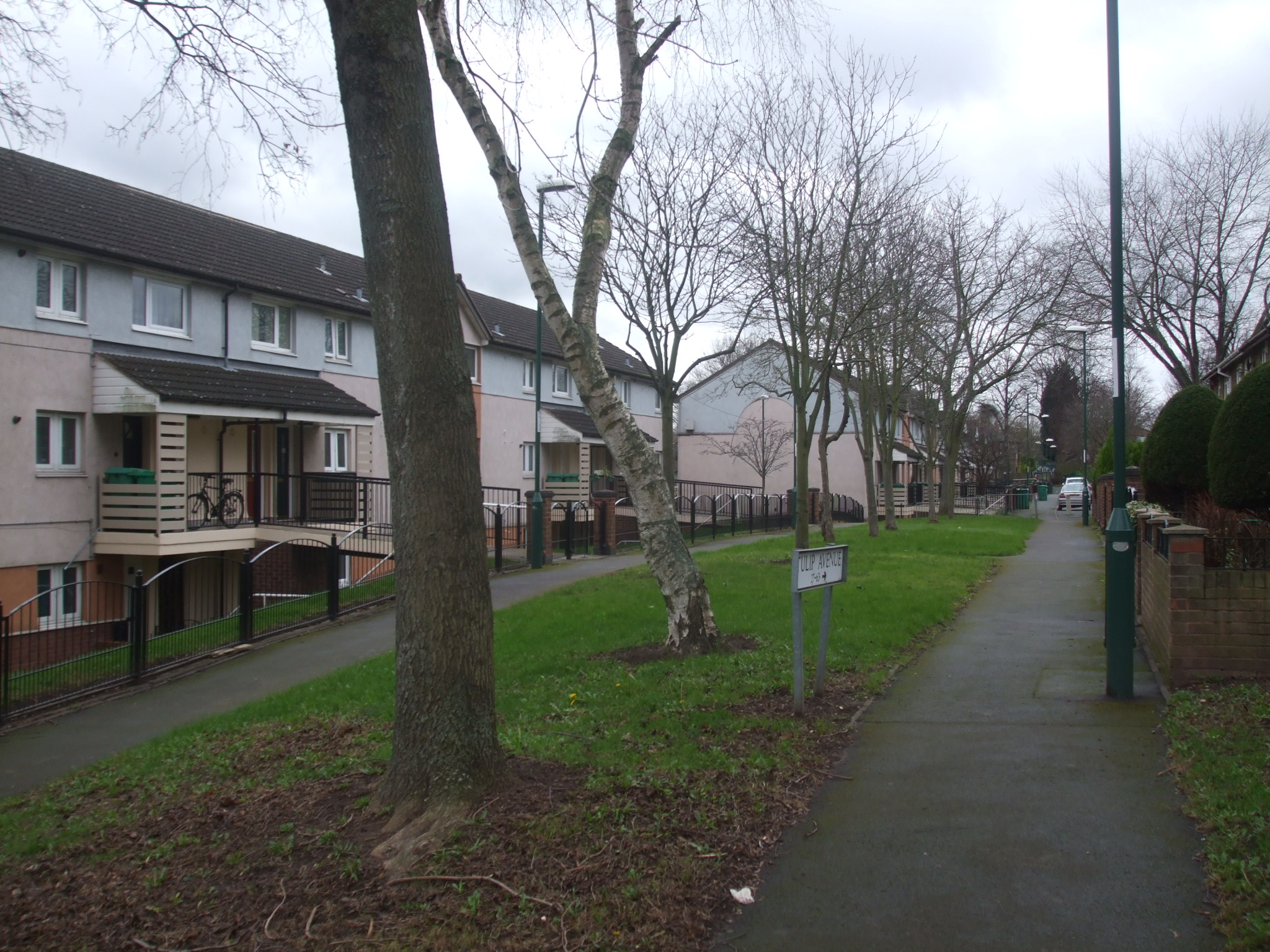 St Ann's is a council ward in Nottingham. It hosts a large council estate. Hungerhill Road at this point backs on to Tulip Avenue, and the paths lead to Robin Hood Chase.